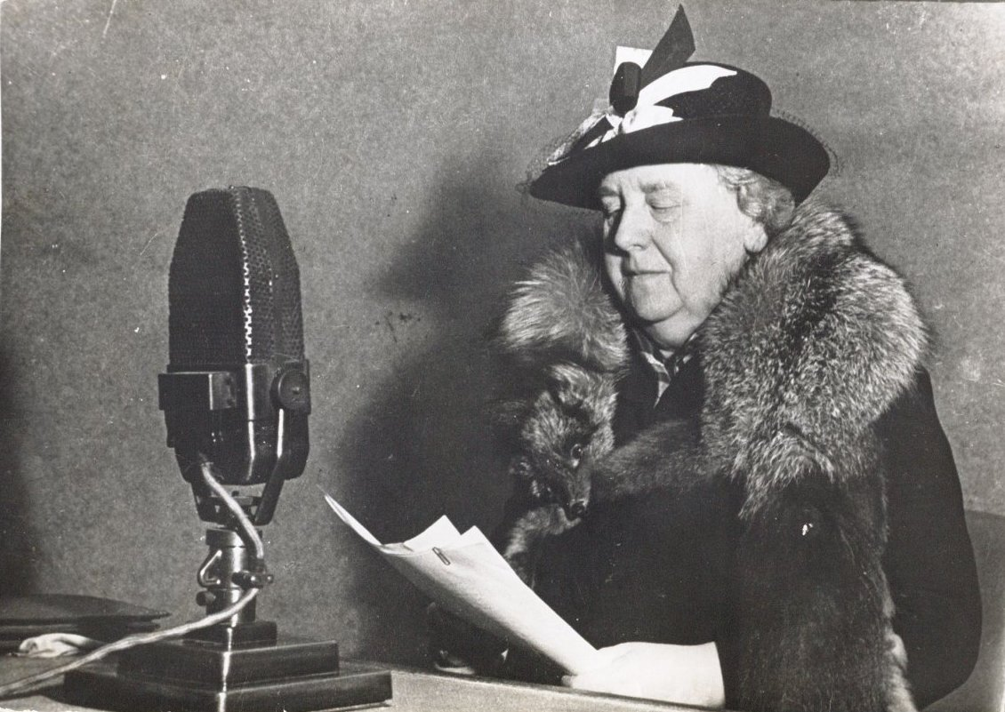 Koningin Wilhelmina spreekt tot het volk via Radio Oranje.